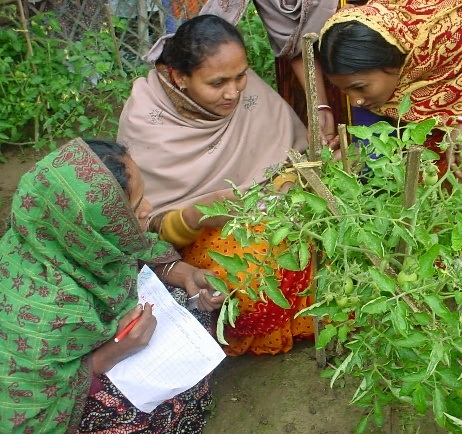 Picture taken by author of wiki article on Farmer Field School, Bangladesh 2004